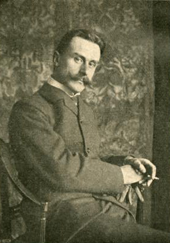 German writer Thomas Mann (1875–1955) in the early period of his career